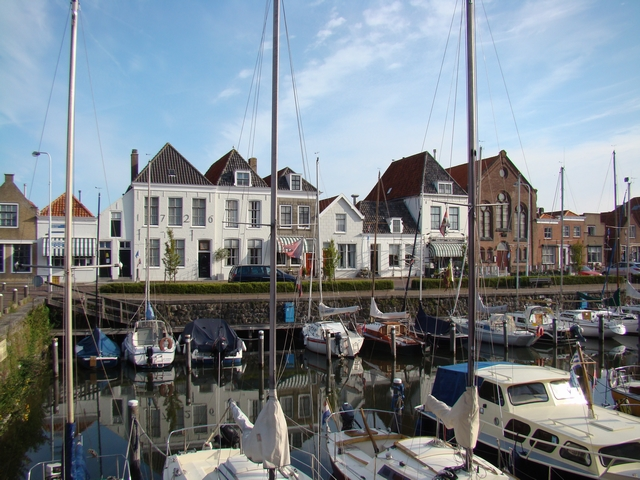 Impressions of Brouwershaven, Netherlands